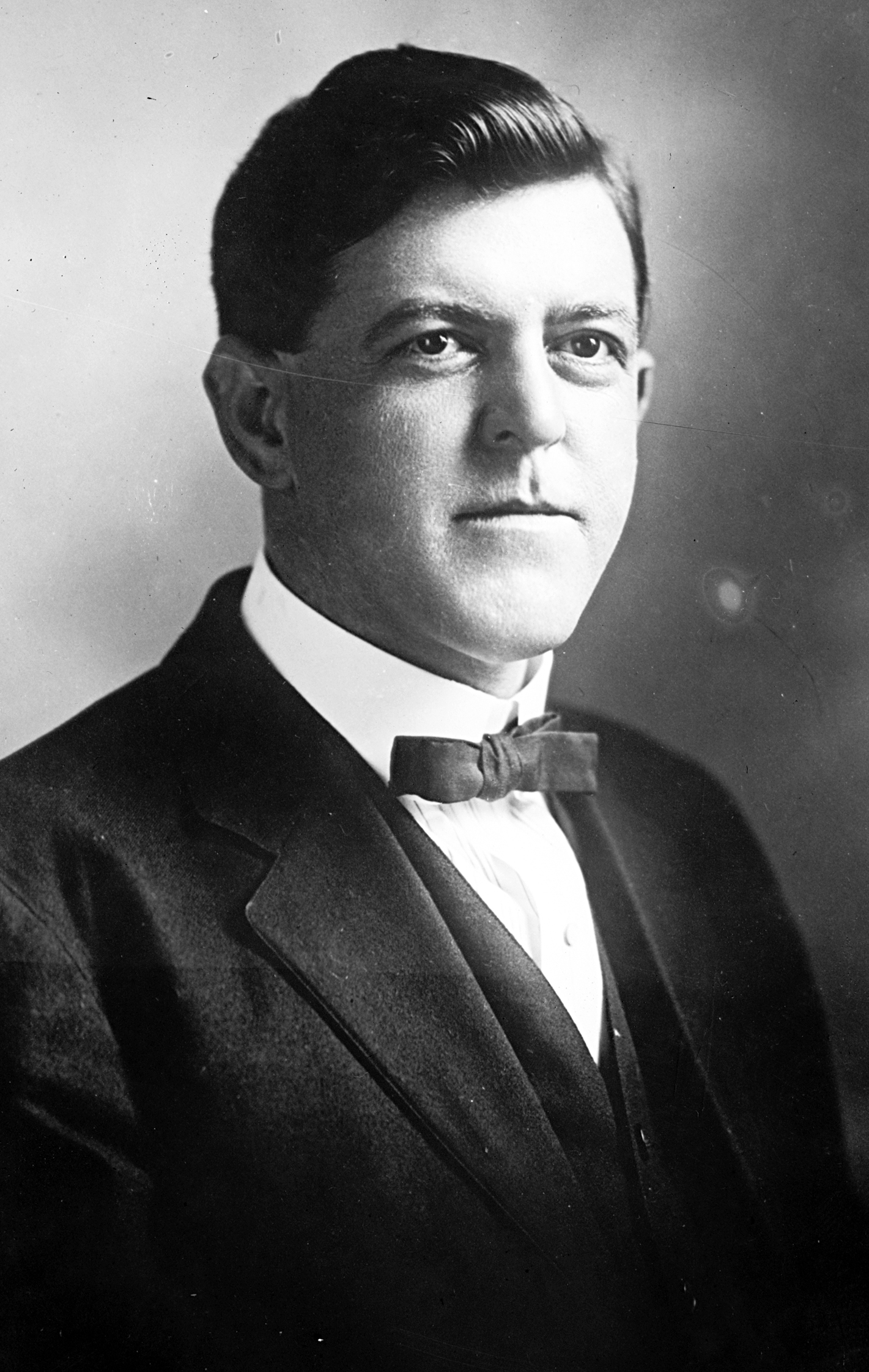 George E. Hood, US Representative from North Carolina